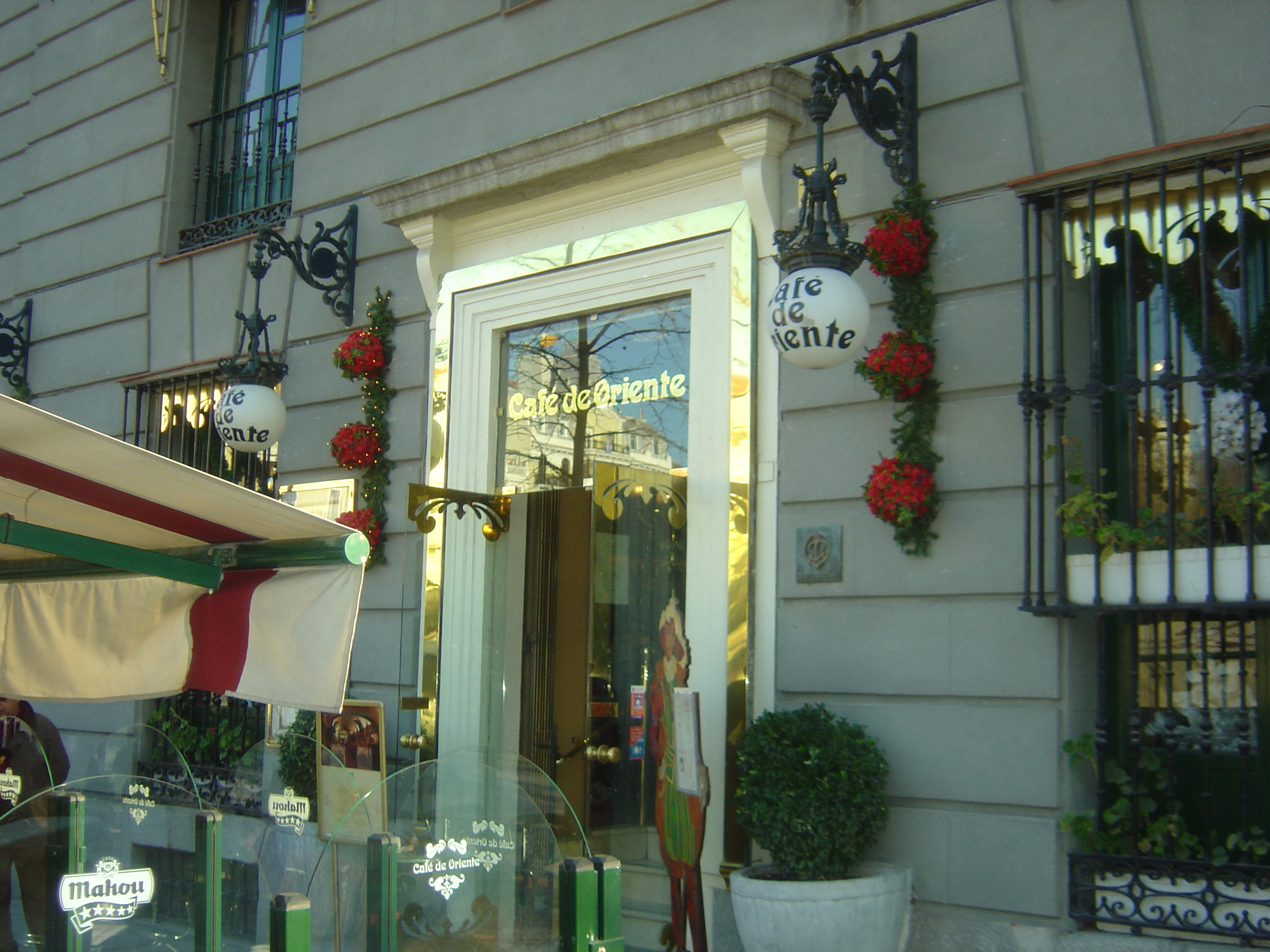 Café de Oriente in Madrid